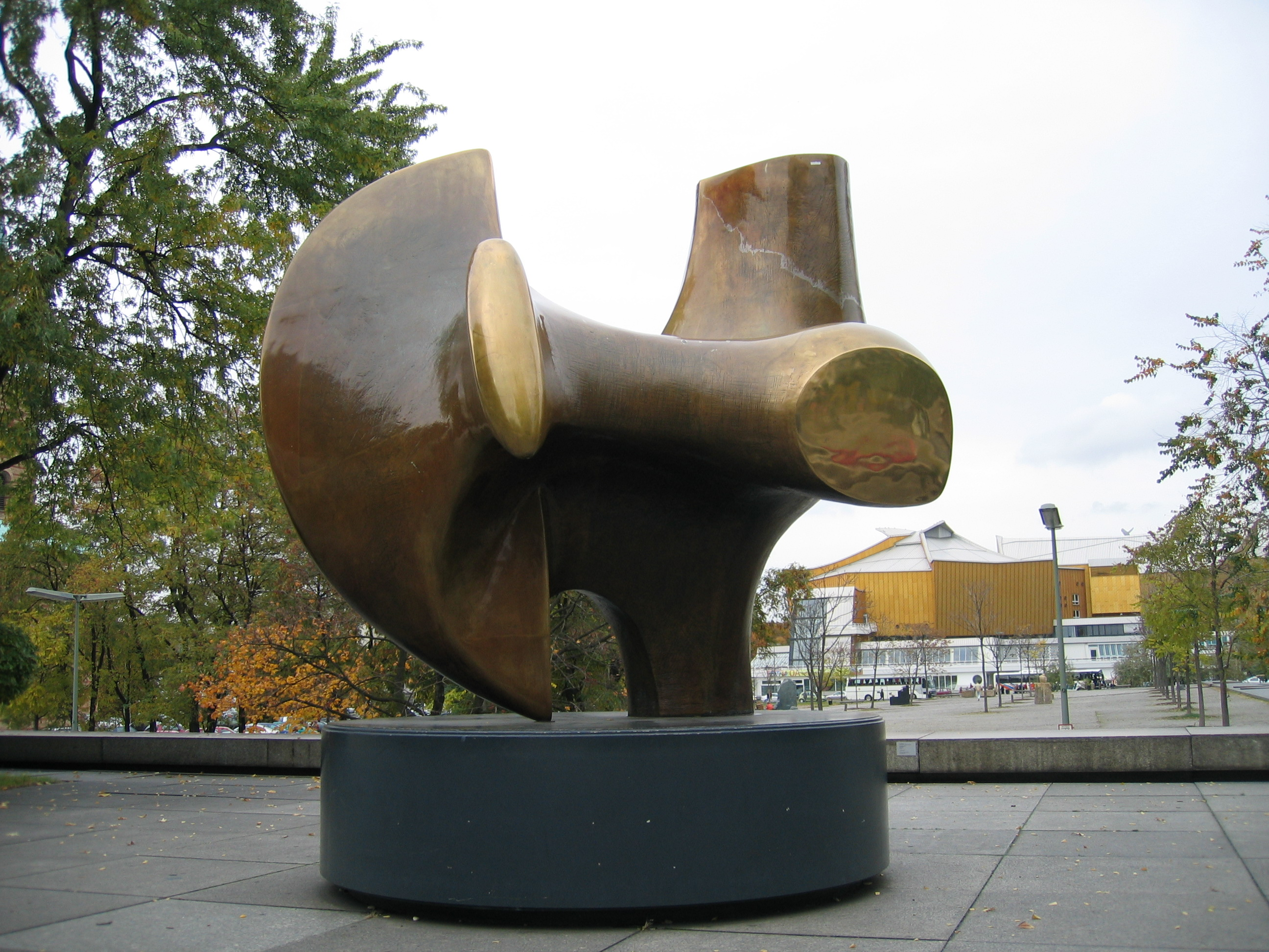 Henry Moore´s The Archer or Archer (1964-65), bronze, outside Neue Nationalgallerie in Berlin, in October 2004. The official name of the sculpture is Two-way Piece No. 2. Weight: 2.5 tonnes, length: 340 cm, height: 325 cm. The first example was erected 1966 on Nathan Phillips Square, outside the City Hall of Toronto in Canada. The Finnish architect, Viljo Revell, had asked Moore to create a sculpture in line with the flowing lines of the Town Hall. There is also a Working Model (1964) in Henry Moore Foundation, Perry Green, Hertfordshire, Great Britain. Furthermore there is a series of the sculpure in lesser scale (ca. 90 cm), owned by i.a Art Gallery of Ontario (Toronto, Canada), Hirschhorn Museum (part of the Smithonian Museums, Washington D.C., USA), Tate Gallery, London, Great Britain) and University of Florida Architecture and Fine Arts Library. Gainesville, Florida, USA). The Didrichsen Art Museum in Helsinki in Finland has a 78 cm Archer in marble in its collection.